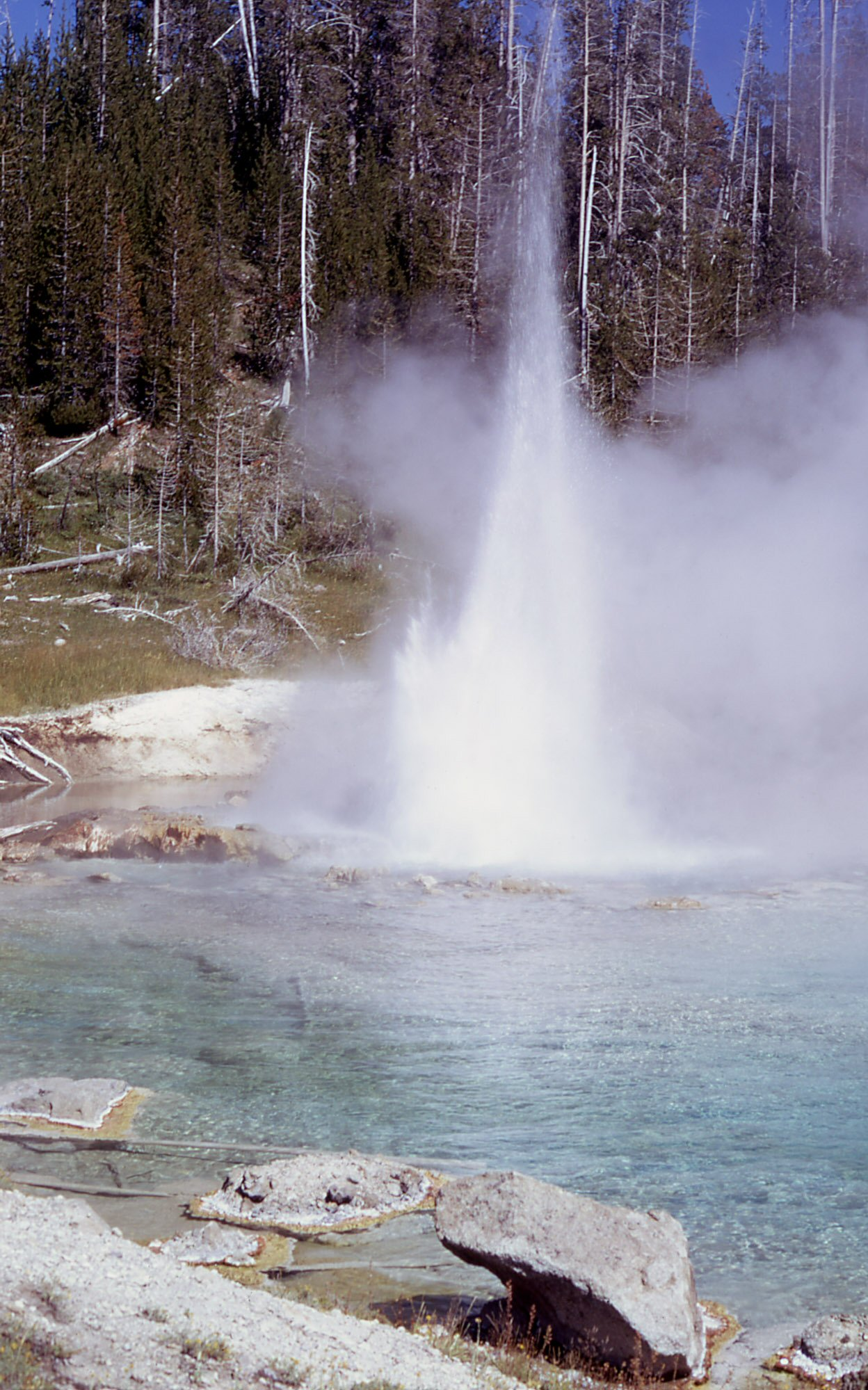 Imperial Geyser, Midway Geyser Basin, Yellowstone National Park, Wyoming